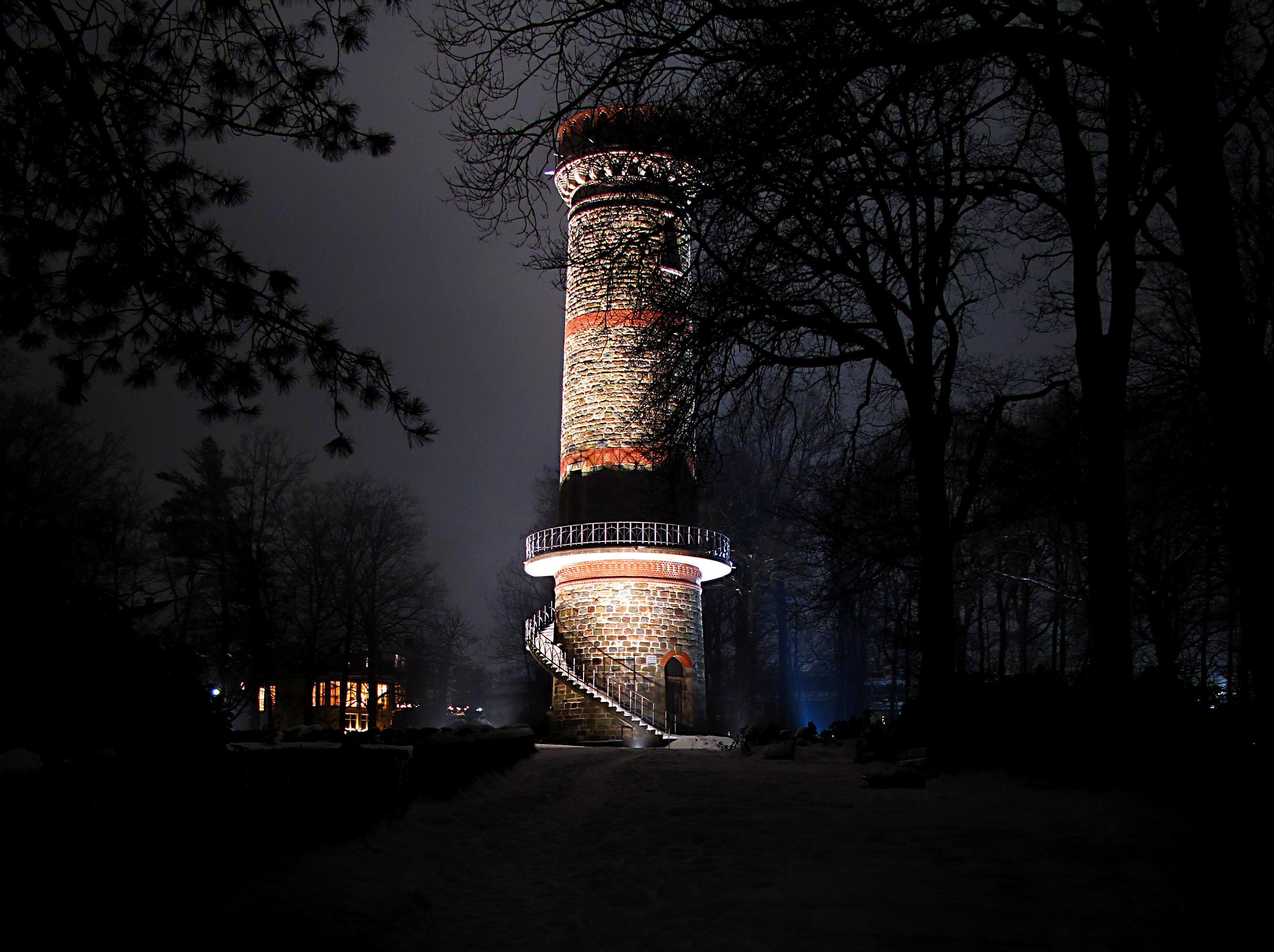 Toelleturm at night in Winter. Taken by Sara Pons.